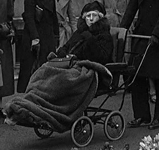 Princess Beatrice, being pushed around in a wheelchair, 1936